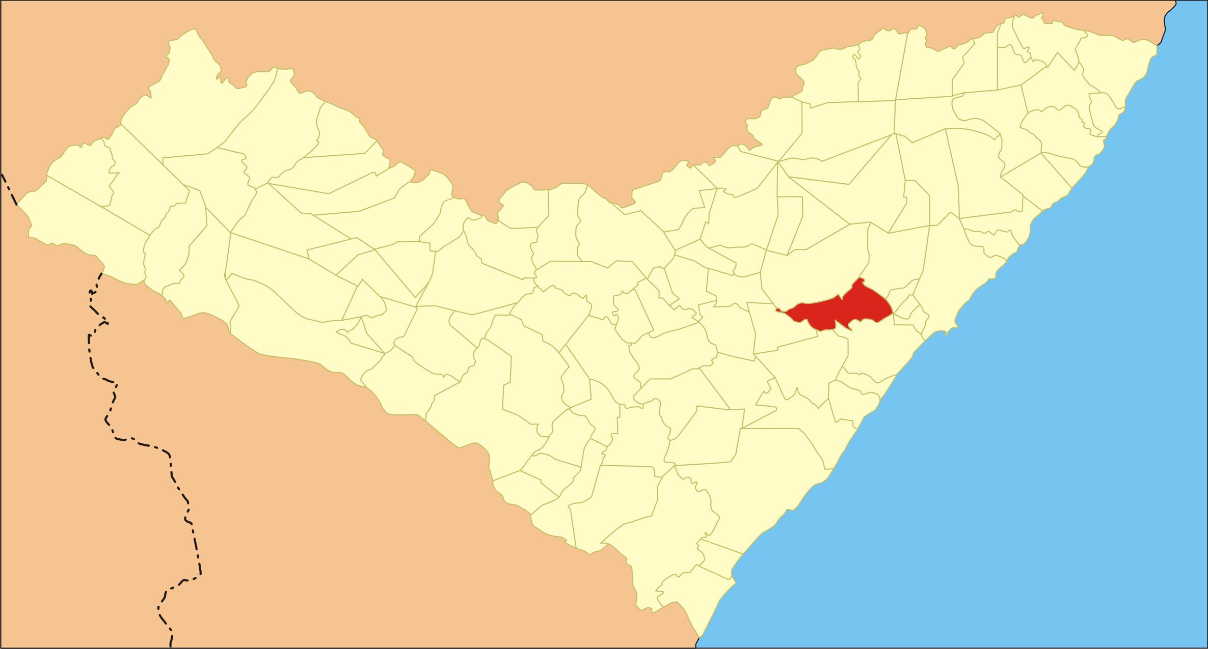 City localization in Alagoas